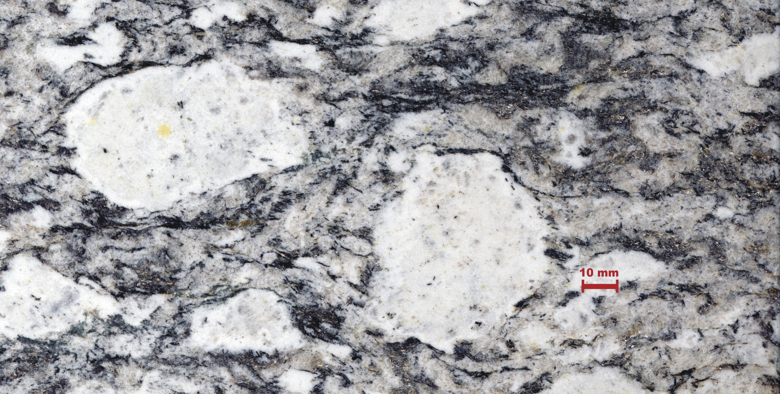 Leggiuna Gneiss from Ticino, Switzerland.